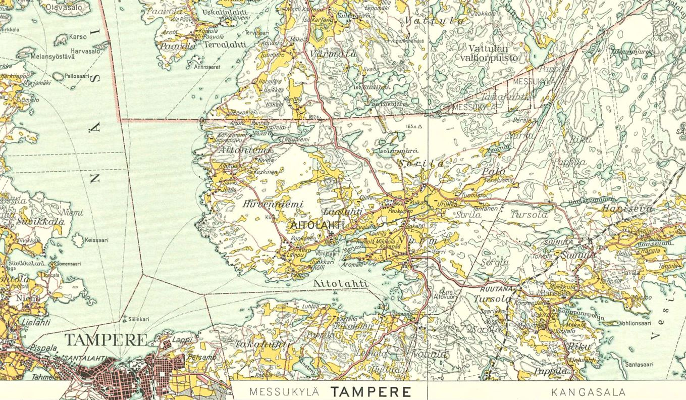 An excerpt from a map of northern Pirkanmaa region. The excerpt show the limits of a former municipality of Aitolahti (1924-1966).